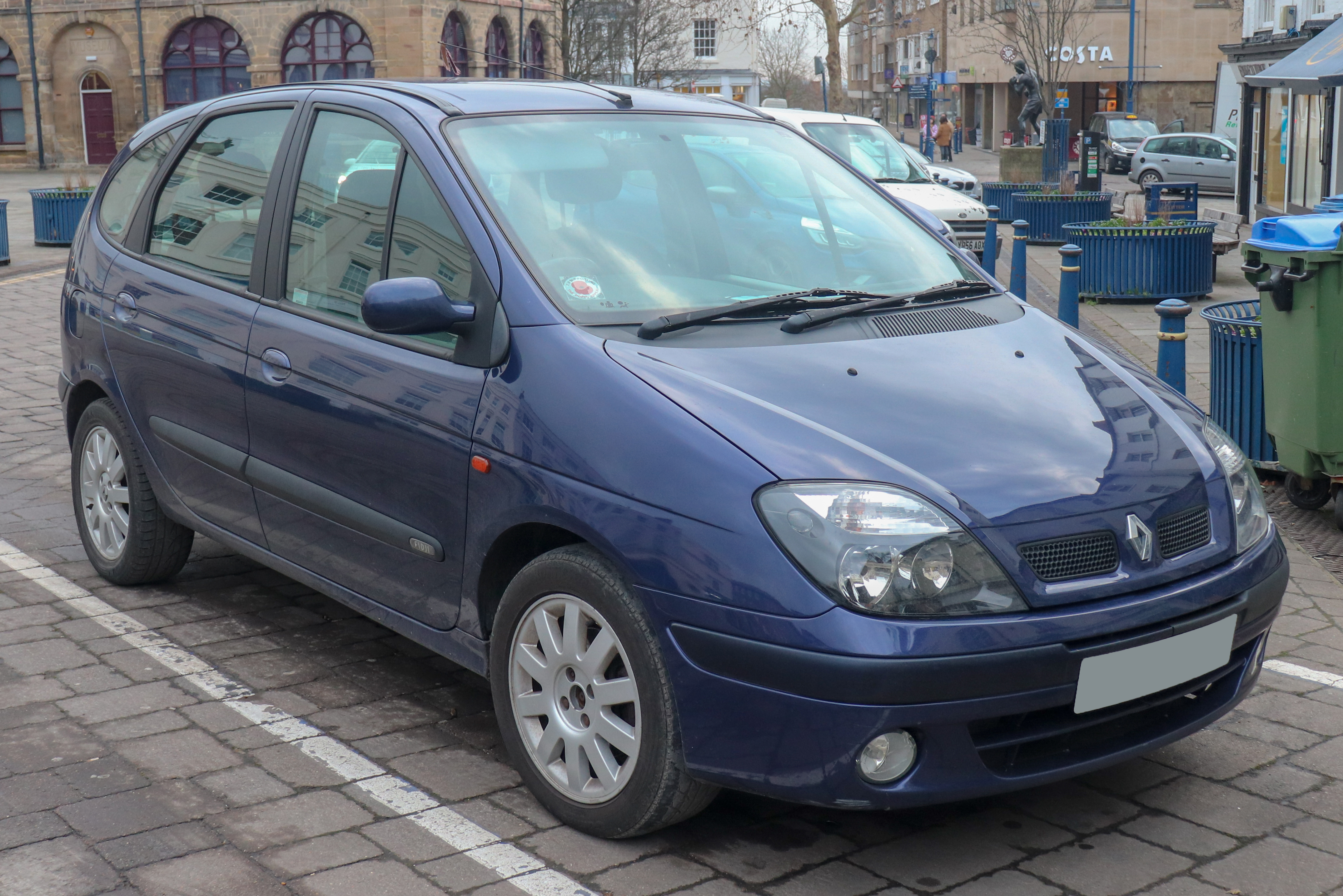 2003 Renault Megane Scenic Fidji 16V 1.6 Front Taken in Warwick